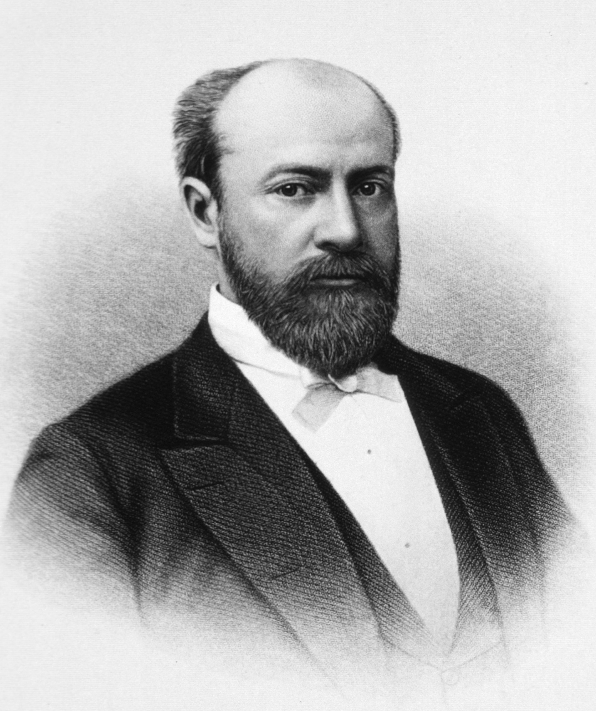 Dr. Charles Augustus Leale M.D. (March 26, 1842 – June 13, 1932)